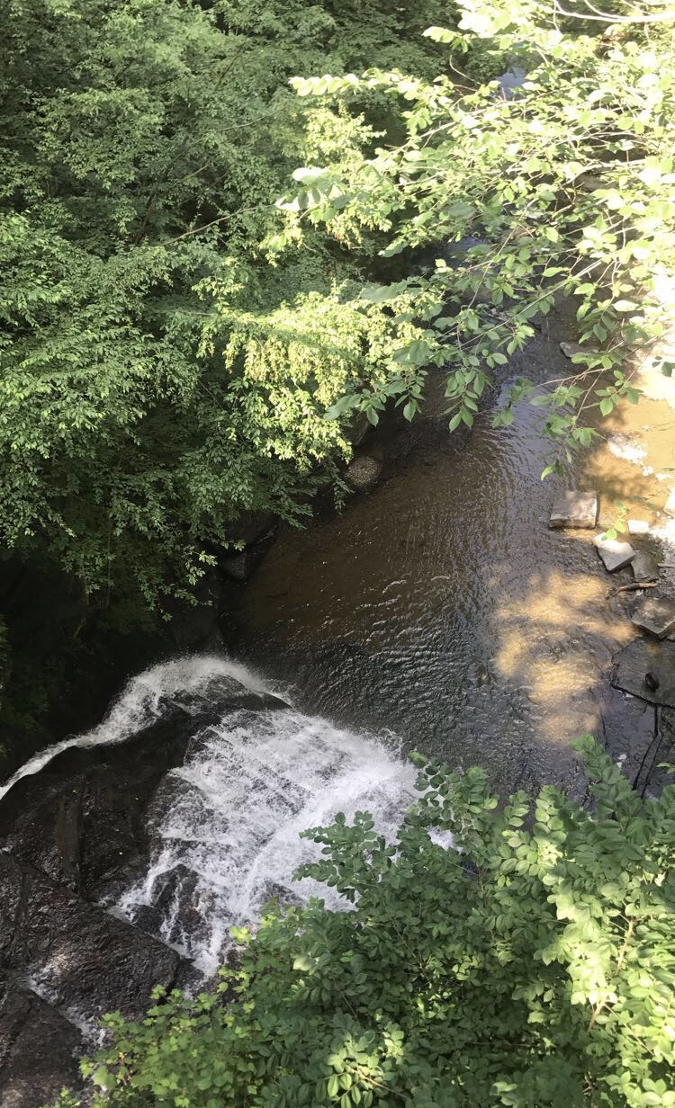 Rexford Falls New York from historic bridge above. Near New York State Route 80